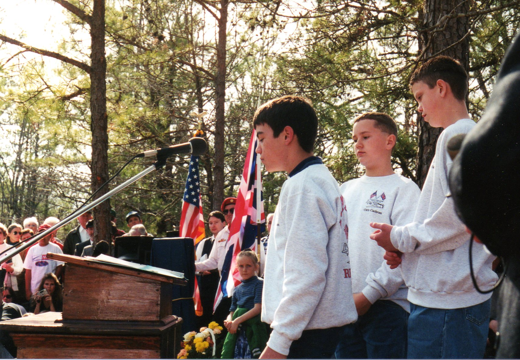 Rattan, Oklahoma school students at the dedication of the AT6 Monument, a memorial to Royal Air Force cadets who were killed while on a training flight during World War II. It stands on Big Mountain, north of Moyers, Oklahoma.